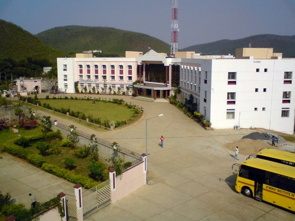 Synergy Institute of Engineering & Technology, Dhenkanal, Orissa